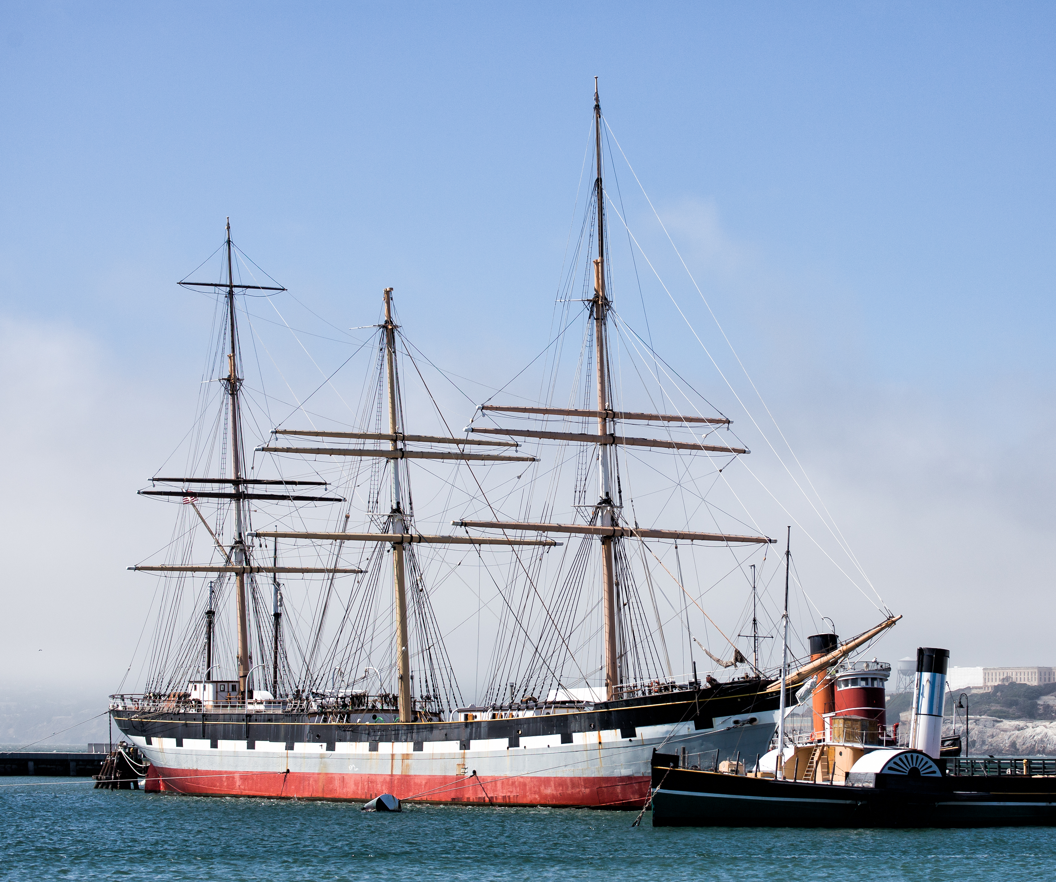 The sailing ship Balclutha at the San Francisco Maritime National Historical Park